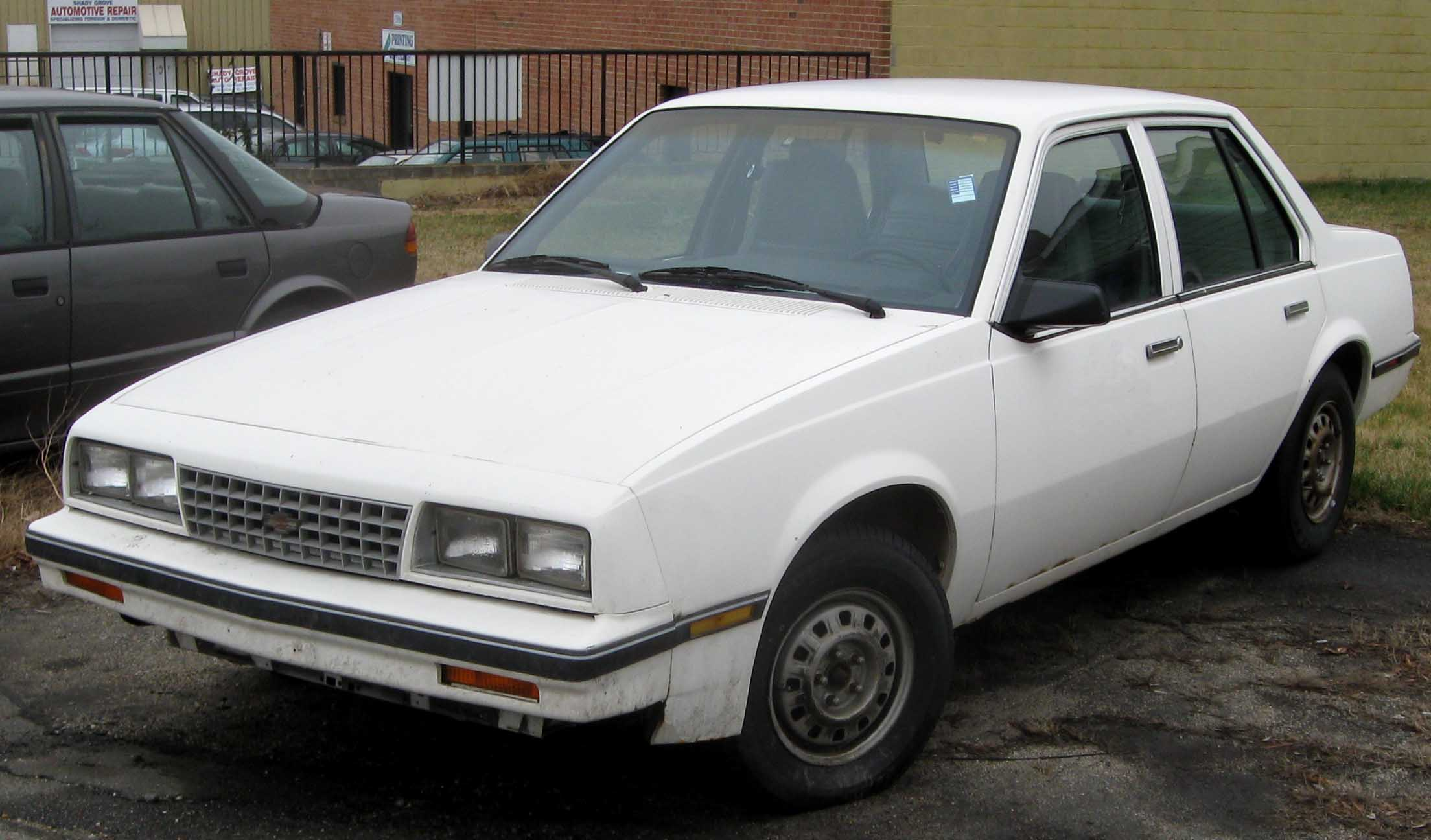 1986-1987 Chevrolet Cavalier photographed in Rockville, Maryland, USA.